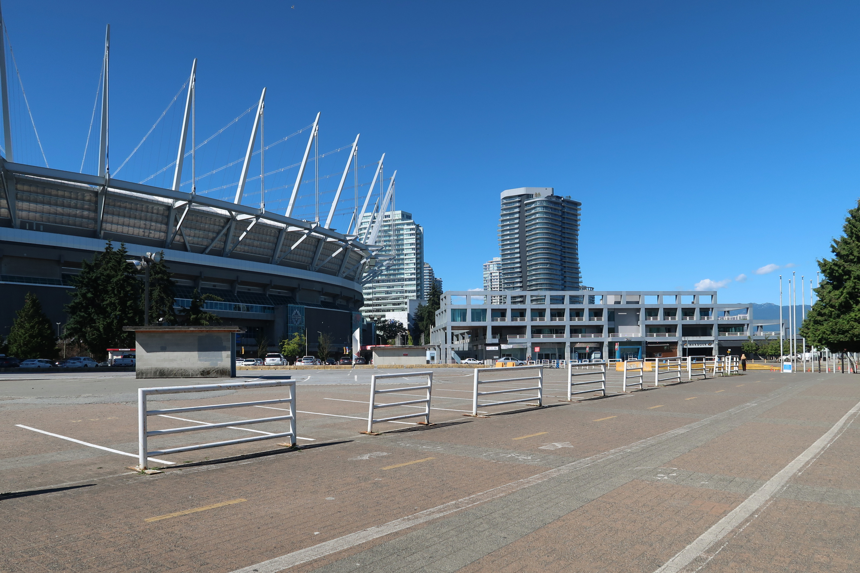 Plaza of Nations former site